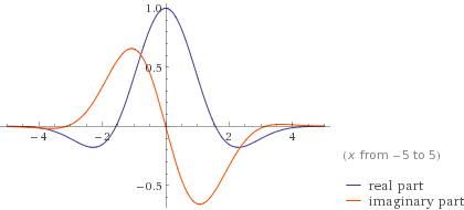 This image displays the real and imaginary components of a Gabor Wavelet where a=2 and k=1, with x_0=0.